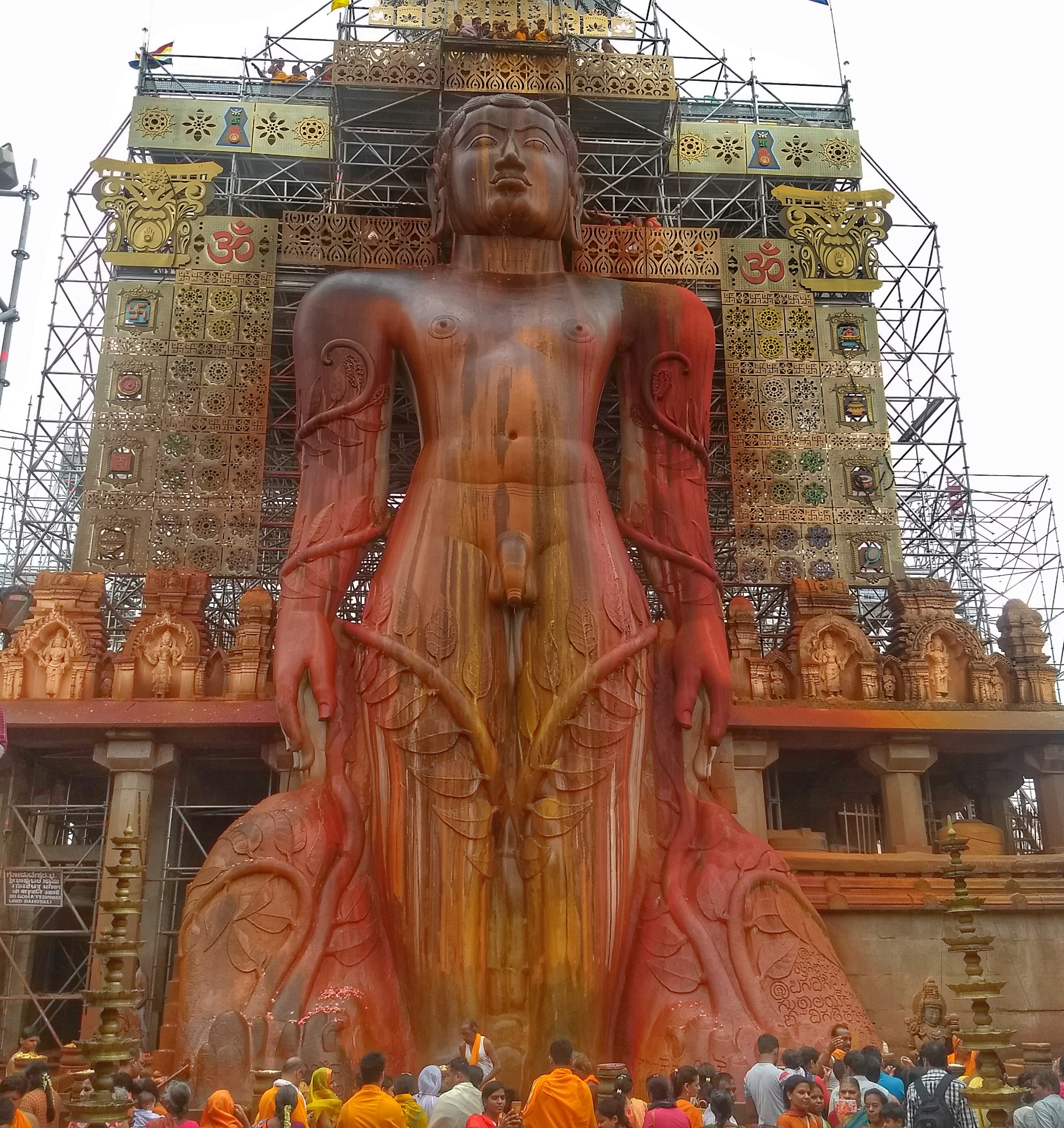 Mahamastakabhishek of Gomateshwara statue